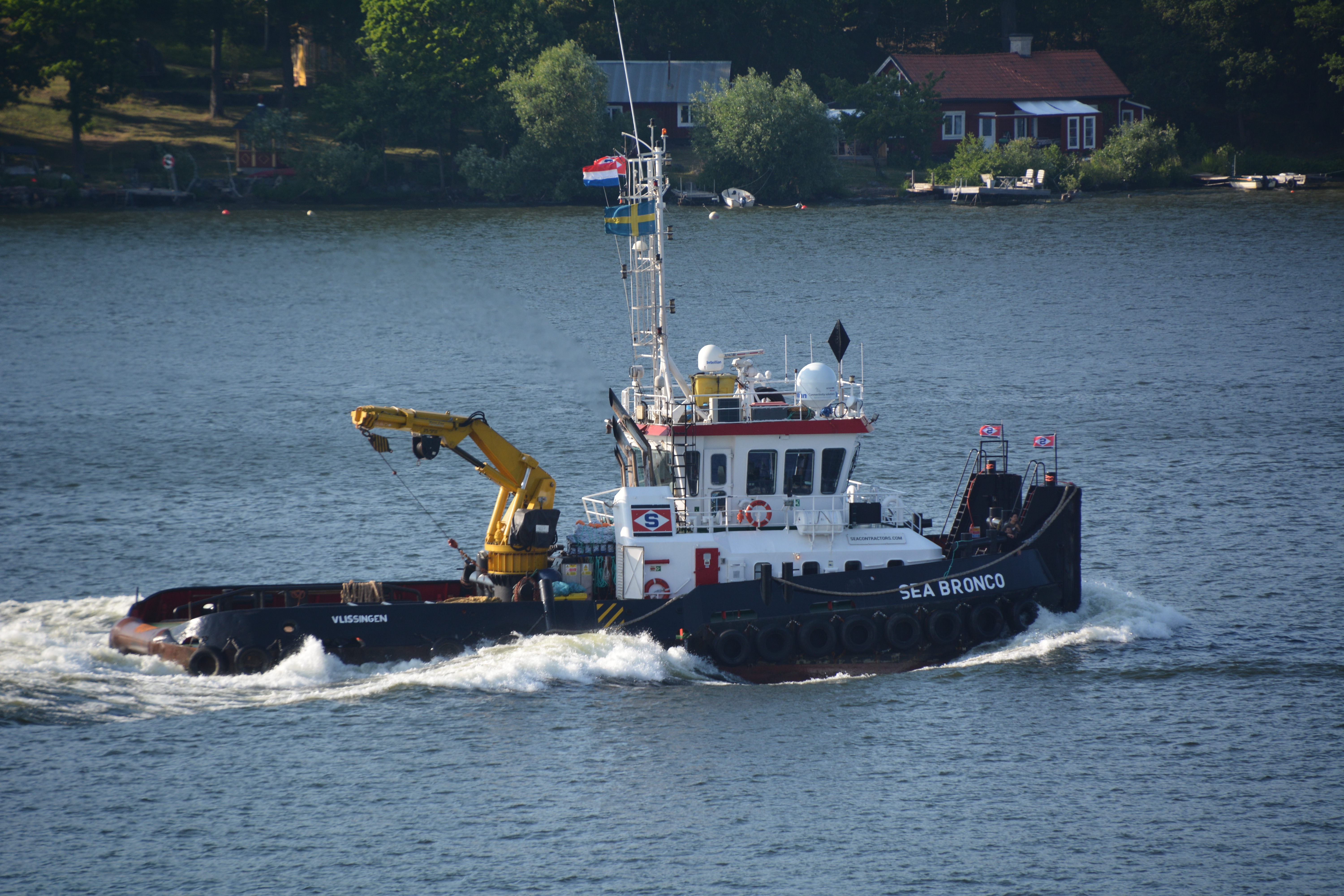 Dutch tug and offshore service vessel Sea Bronco at Lake Mälaren in Sweden